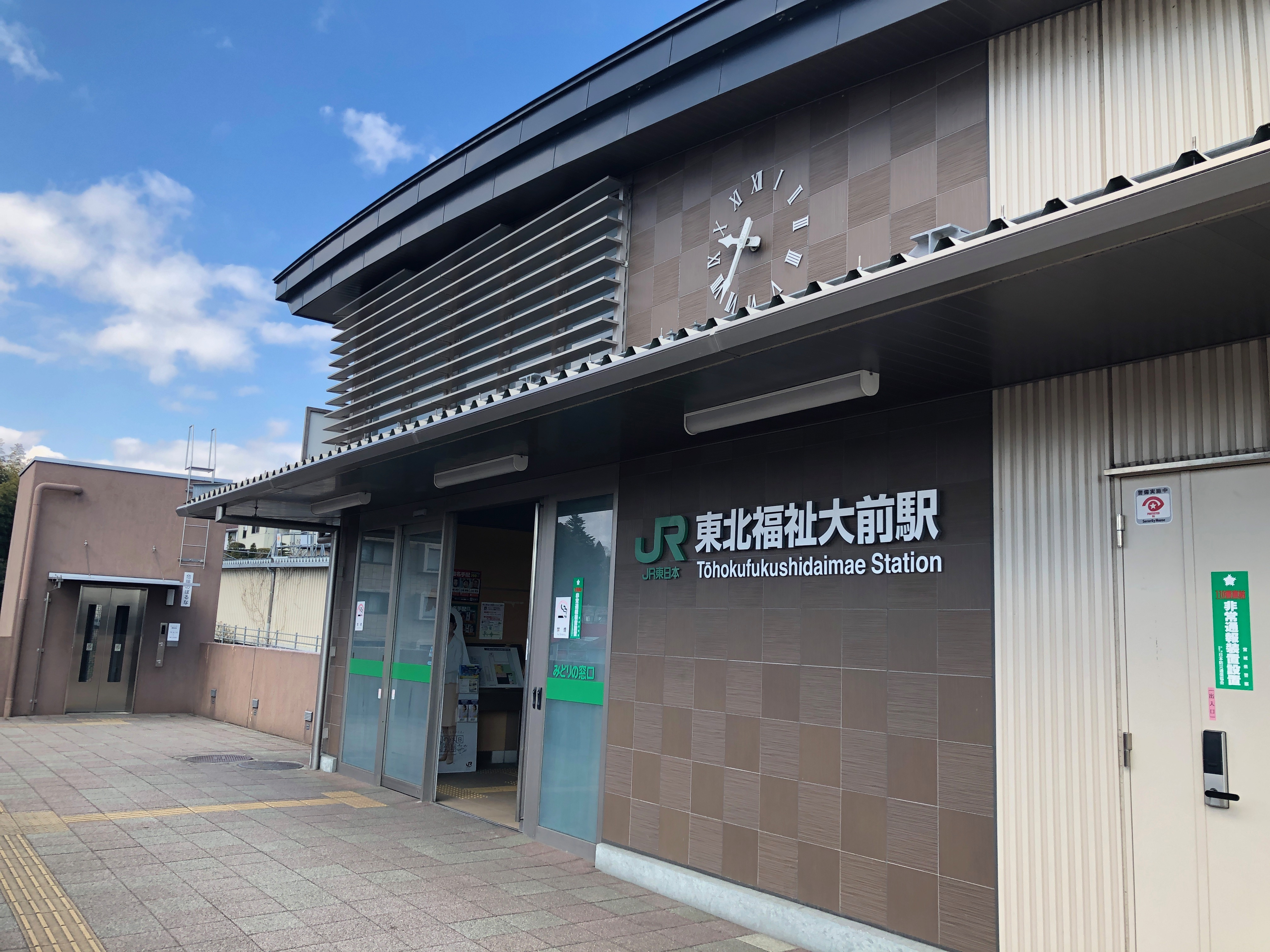 Exterior of Tohoku Fukushi University Station as viewed from the southwest on 15 March 2019